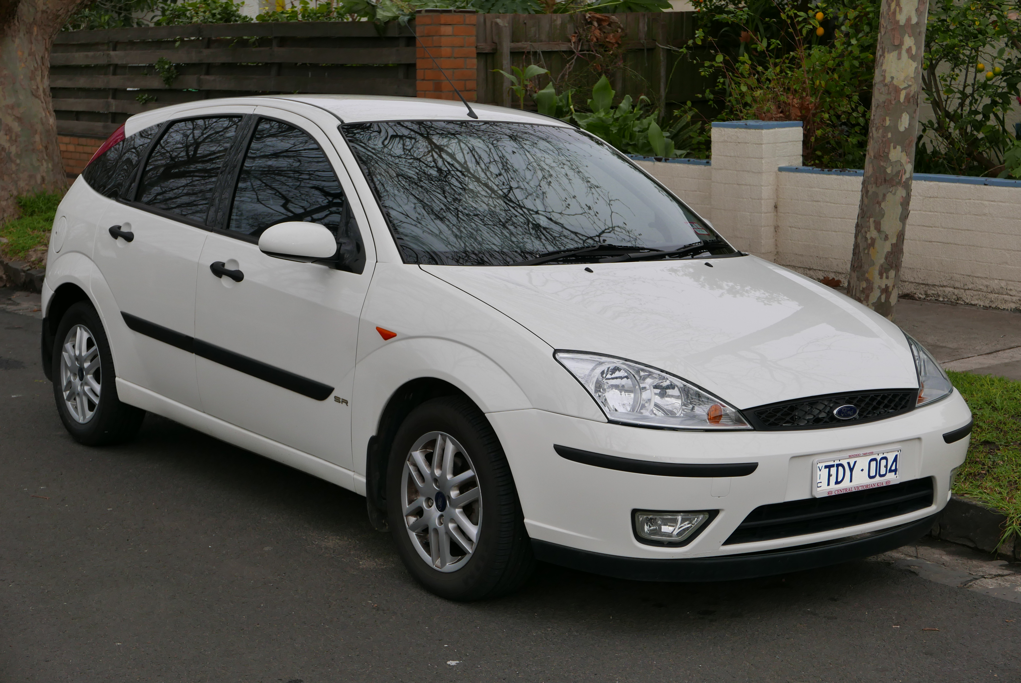 2004 Ford Focus (LR MY03) SR 5-door hatchback. Photographed in Brunswick East, Victoria, Australia. Vehicle registration enquiry resultsJurisdictionVictoriaRegistrationTDY004Chassis codeWF0AXXGCDA4K67584Engine code4K67584Compliance date2004-08Year of manufacture2004